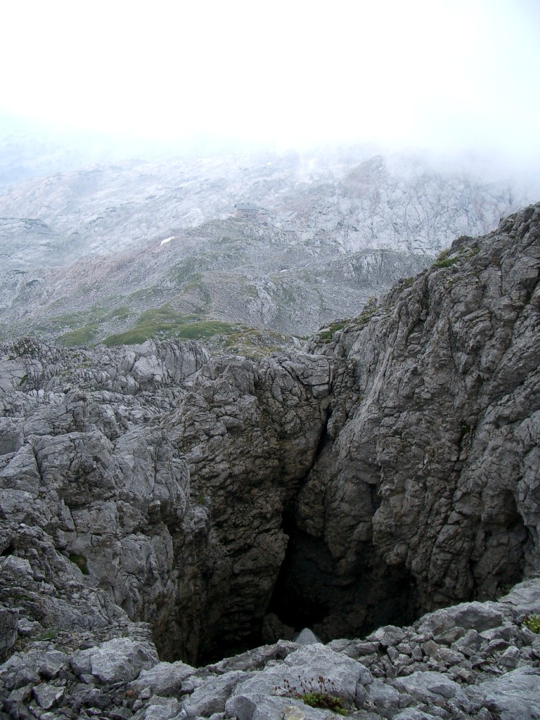 Karst formation of Steinernes Meer, a plateau of the Northern Limestone Alps